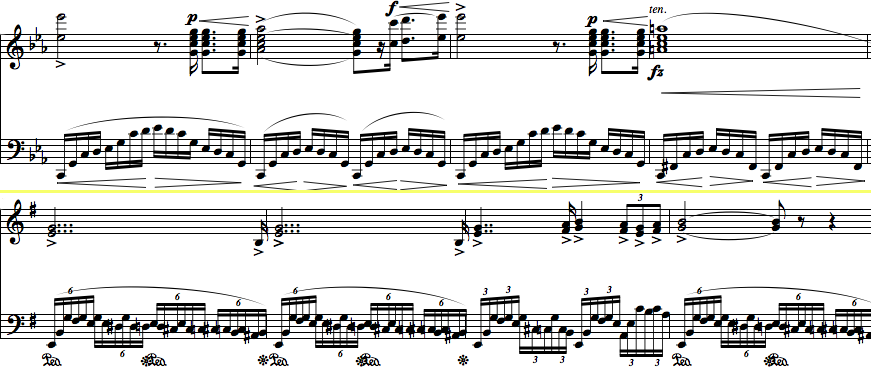 An excerpt of Revolutionary étude by Frédéric Chopin juxtaposed with Six Moments Musicaux, No. 4, by Sergei Rachmaninoff. Both were published before 1923, and thus are in the public domain. See also Image:MM4 excerpt.ogg and Image:Moments Musicaux 4.png